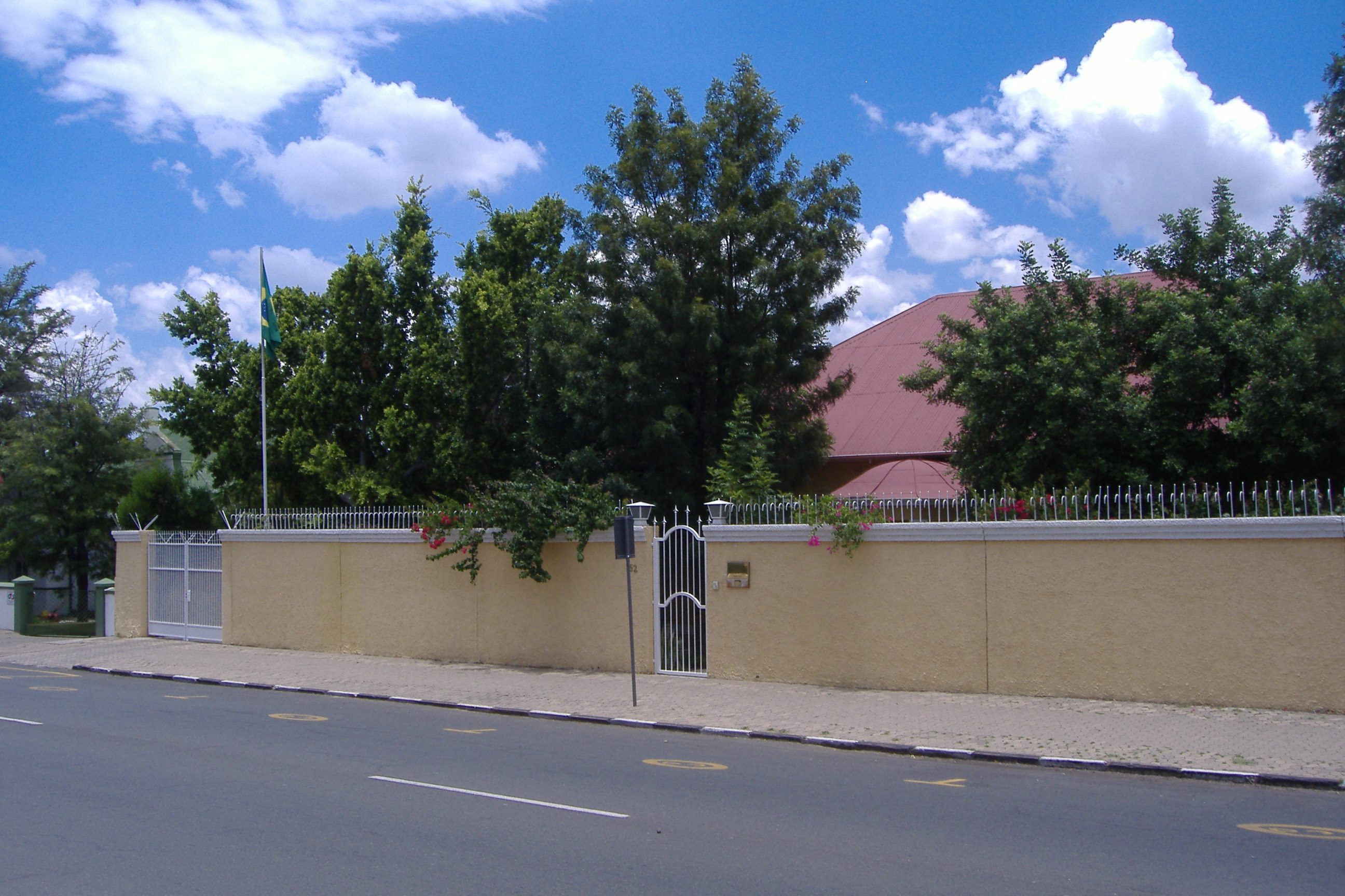 BZ in NA